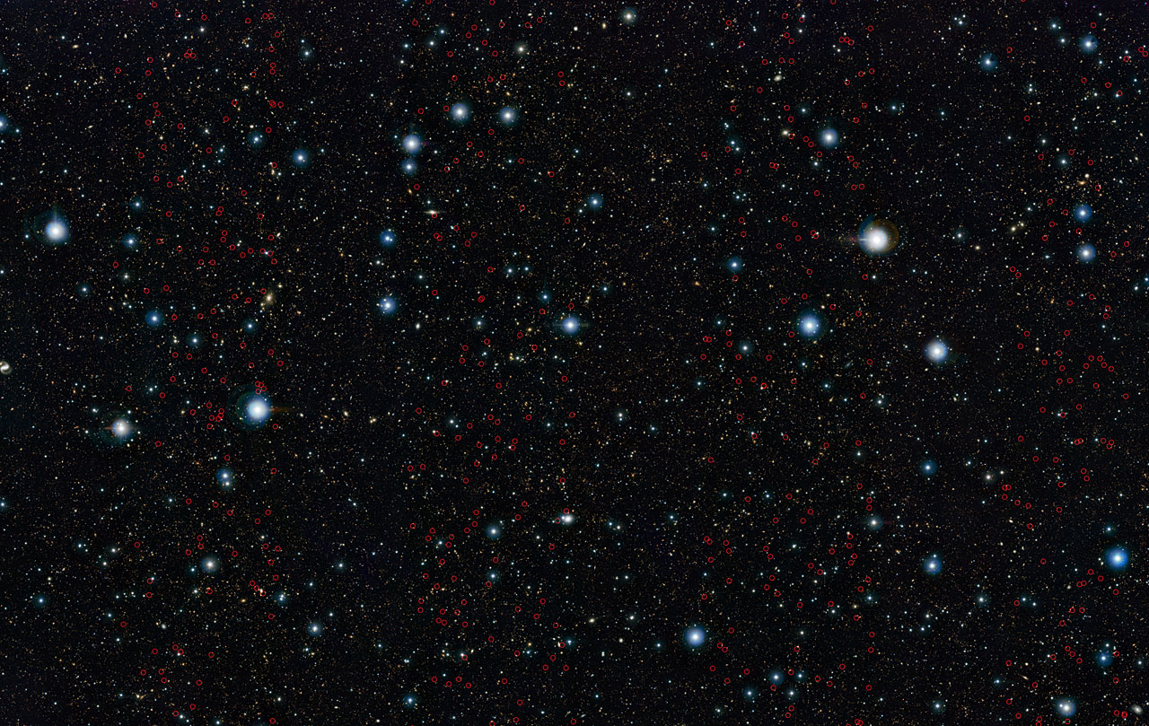 ESO’s VISTA survey telescope has spied a horde of previously hidden massive galaxies that existed when the Universe was in its infancy. By discovering and studying more of these galaxies than ever before, astronomers have for the first time found out exactly when such monster galaxies first appeared. The newly discovered massive galaxies are marked on this image of the UltraVISTA field.